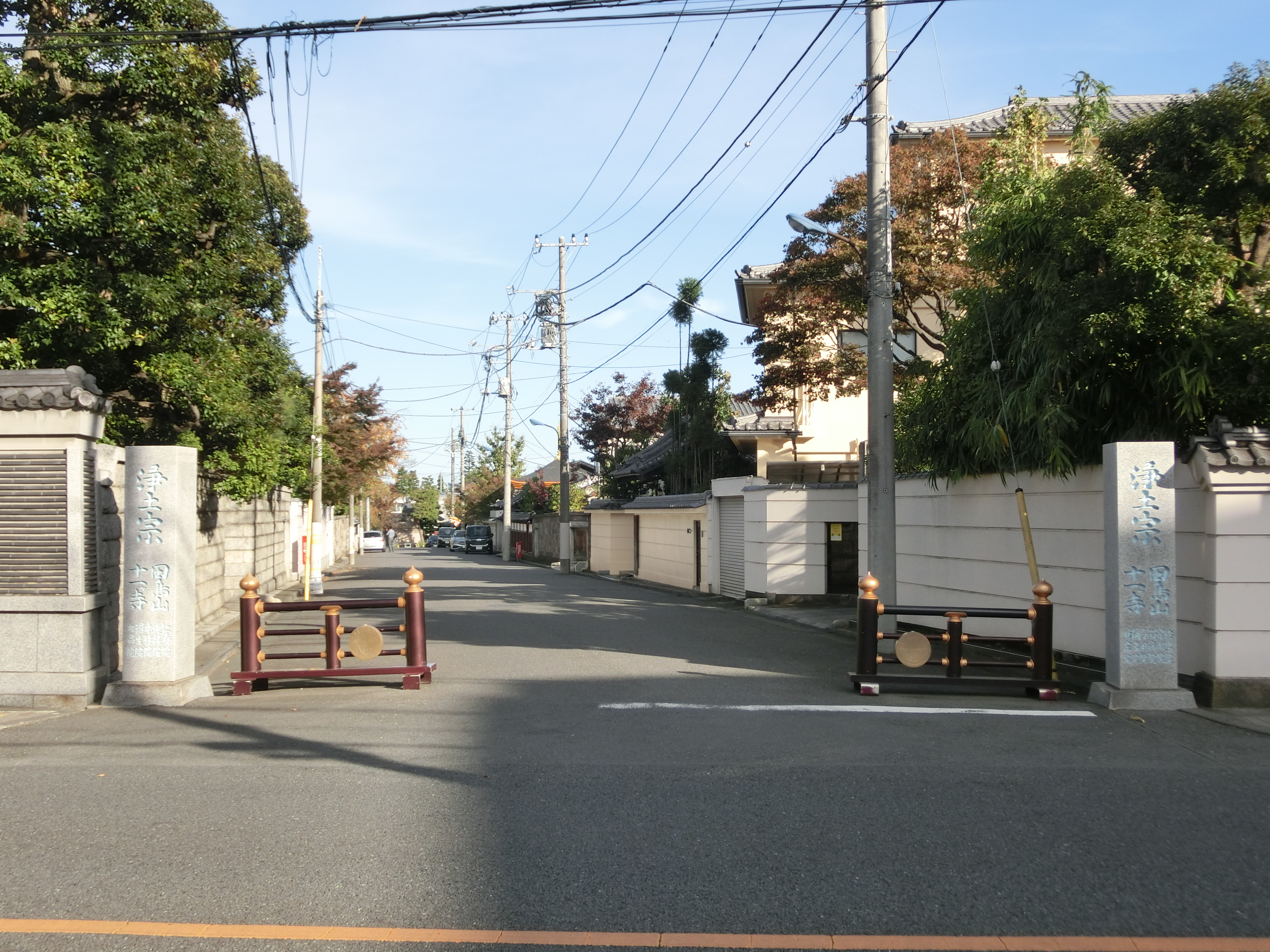 Entrance to Tajimasan 11 Temples